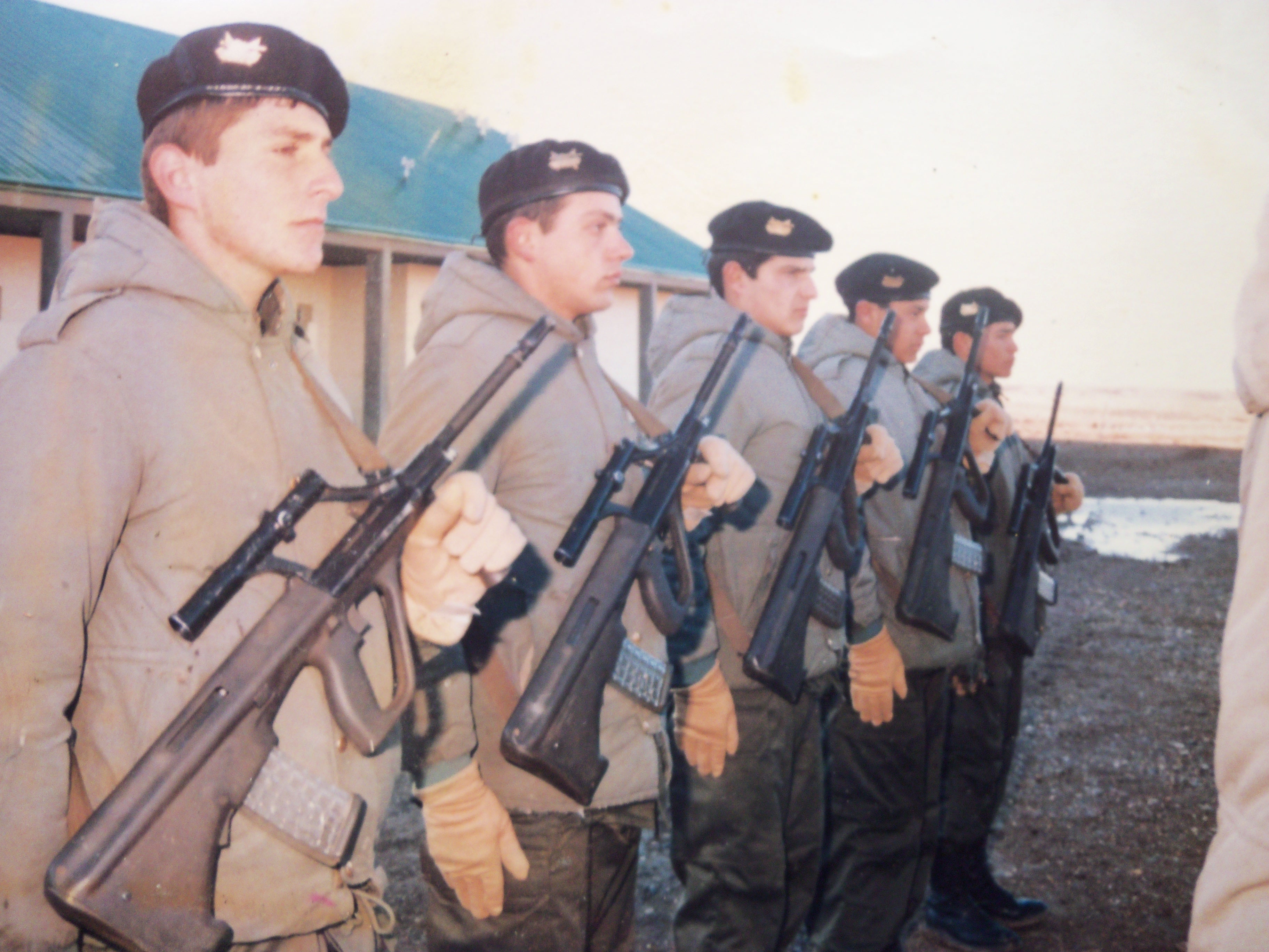 Argentinean Army soldiers with AUG rifles in 1986 in Puerto Deseado.